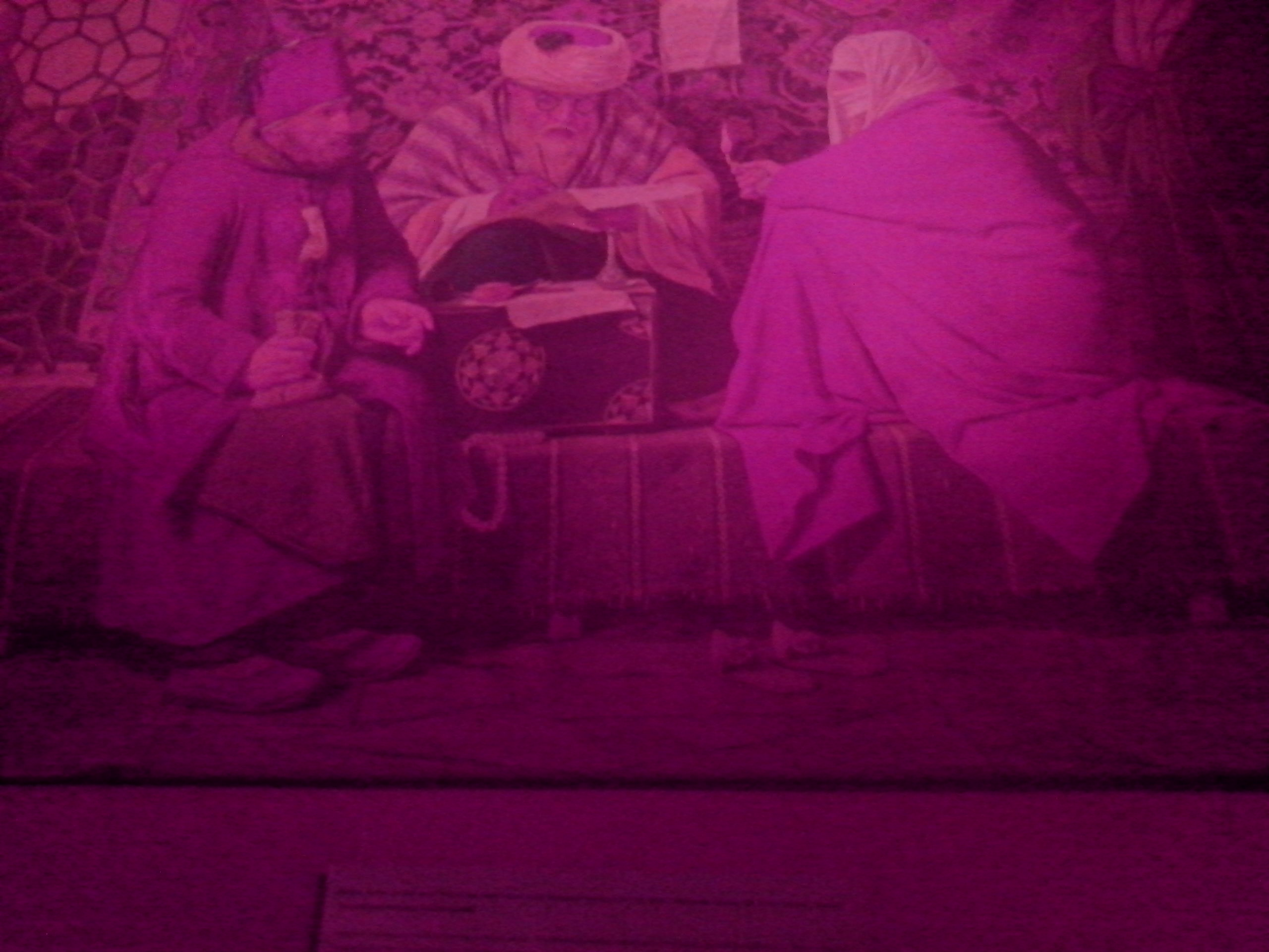 Noter Writing a marriage document